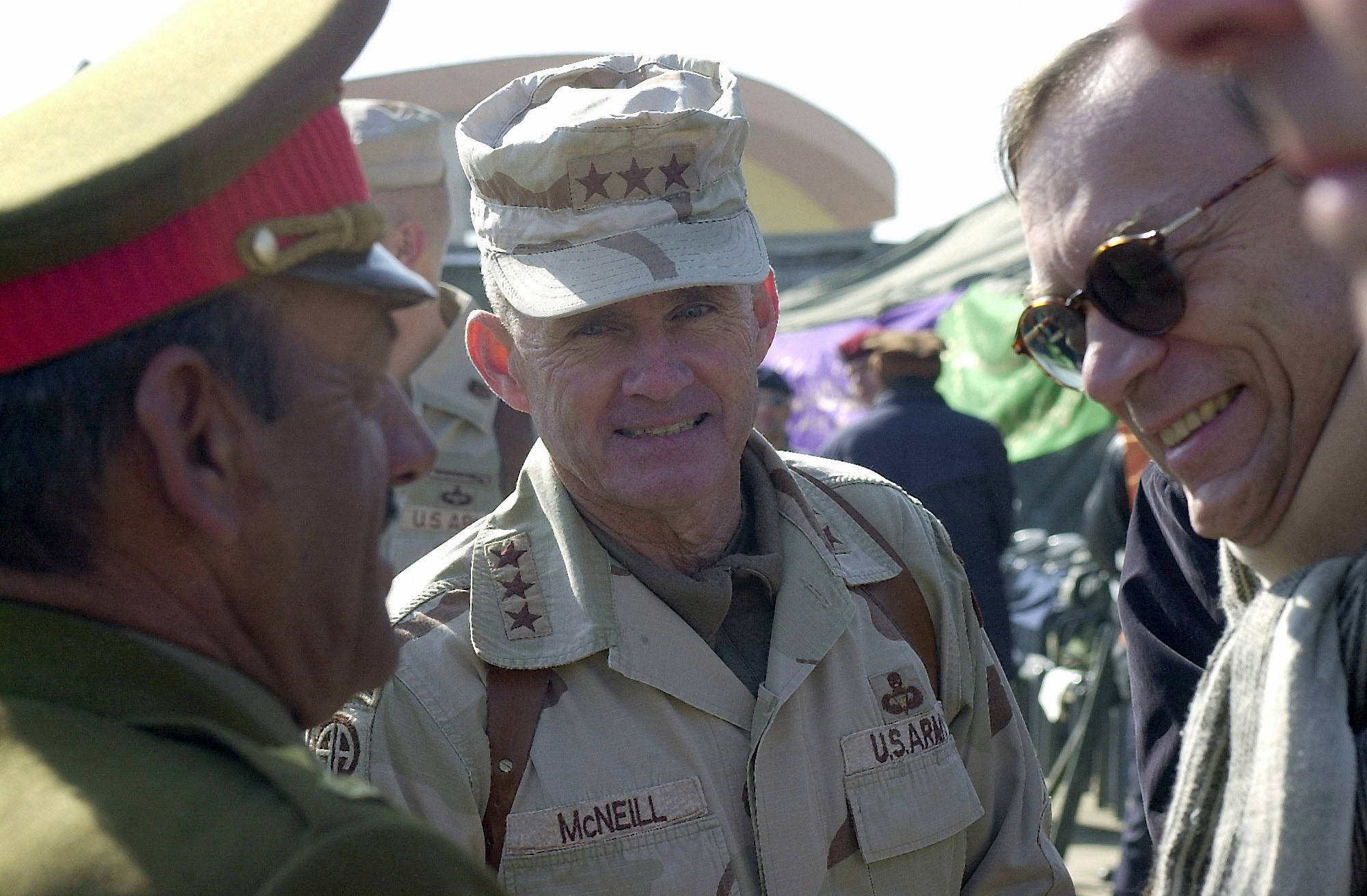 Lieutenant General Dan K. McNeill, Commander of Combined Joint Task Force (JTF) 180, talks with guests during the 6th Battalion Afghan National Army graduation ceremony at Kabul Military Training Compound (KMTC) in Kabul, in support of Operation ENDURING FREEDOM.